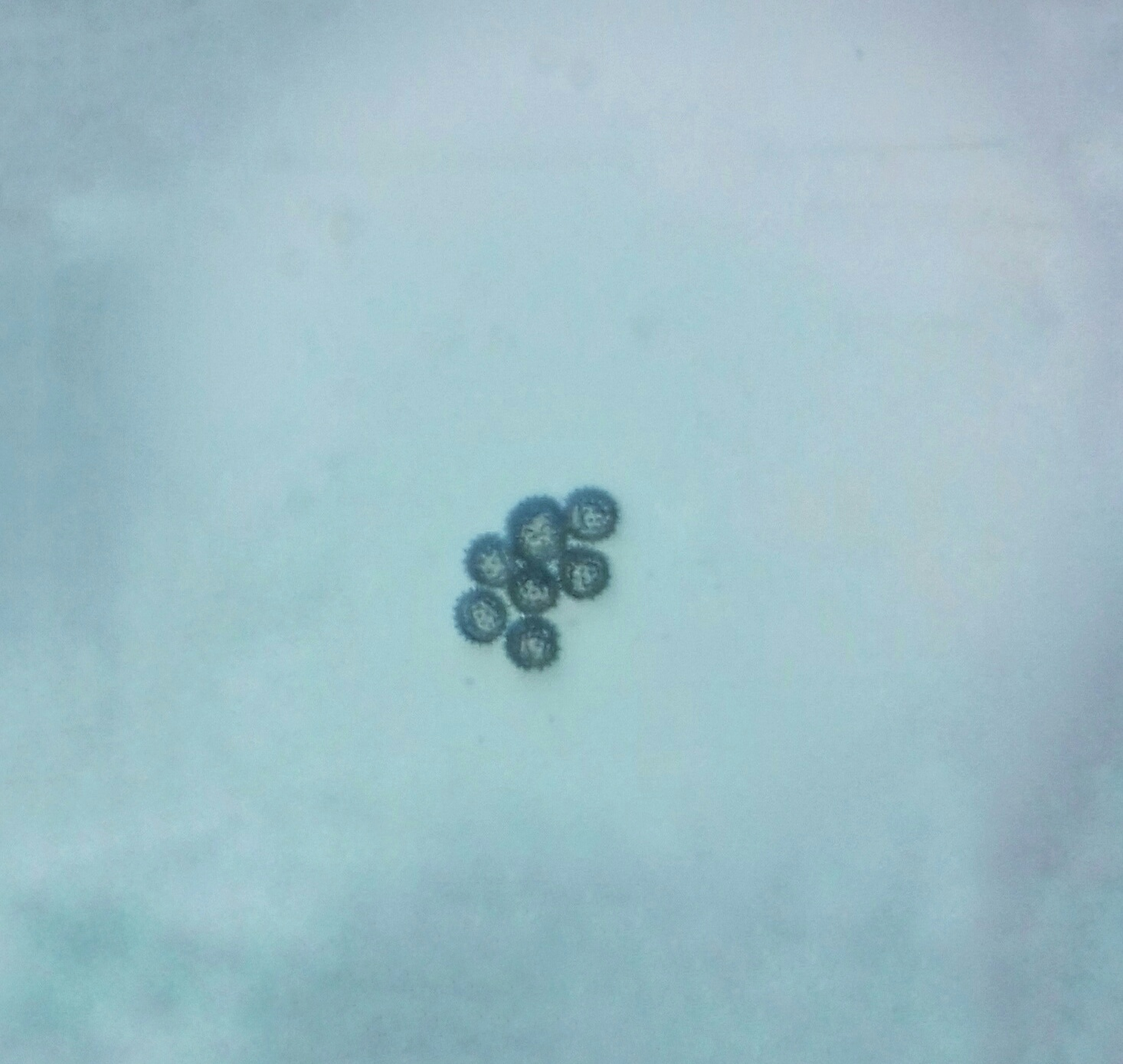 The pollen grains of Tridax. I found this in my backyard. I observed the pollen under a foldscope (140X). Size: approximately 20 microns. The pollen grains of Tridax has very rough surface that helps then to travel form one flower to another.